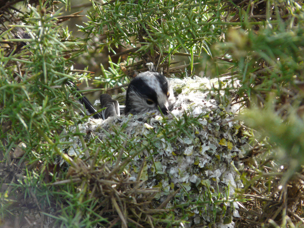 Nest of Long-tailed Tit Aegithalos caudatus. This photo was taken by Alan Shearman on March 7, 2009 in Dungeness, England, GB, using a Panasonic DMC-FZ18.